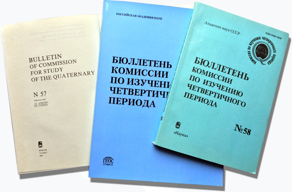 Bulletin of the Commission for study of the Quaternary (BCQ)